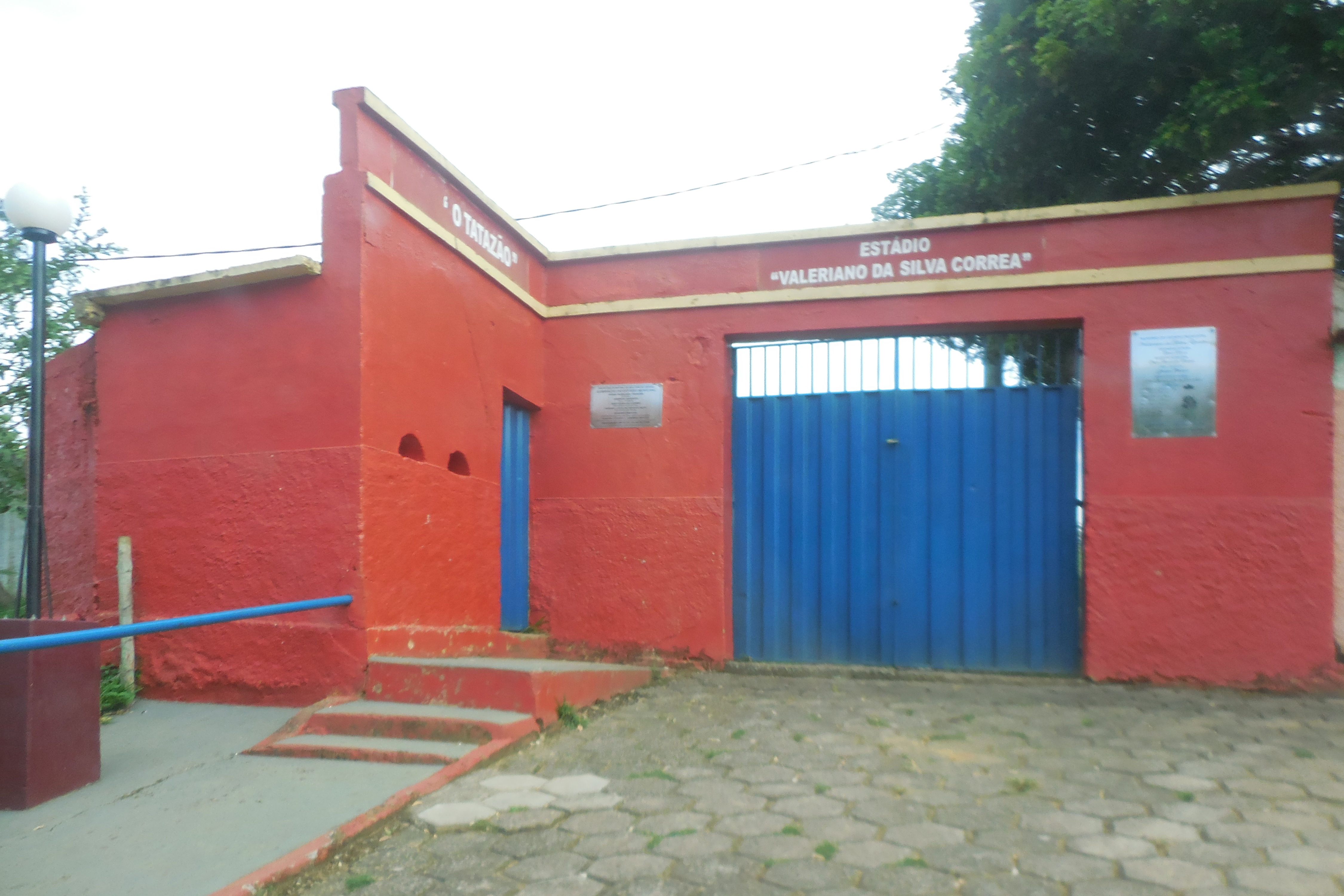 Entrance of the Valeriano da Silva Correa Stadium, in São José do Goiabal, Minas Gerais, Brazil.